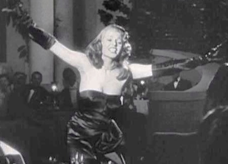 Screenshot of Rita Hayworth as Gilda performing "Put The Blame On Mame" in the trailer for the film Gilda.